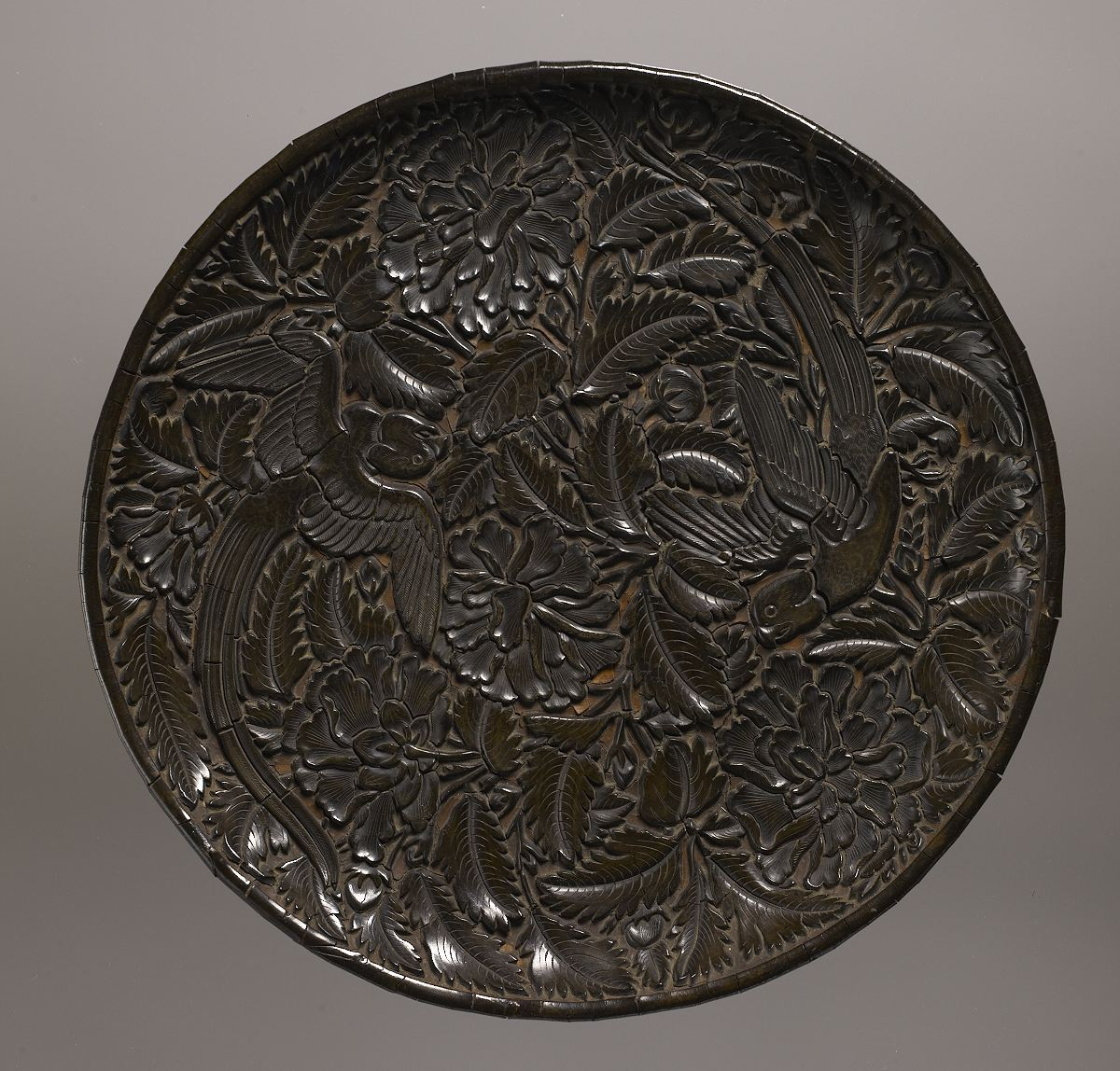 A Yuan lacquered plate with two parrots playing amongst plants.